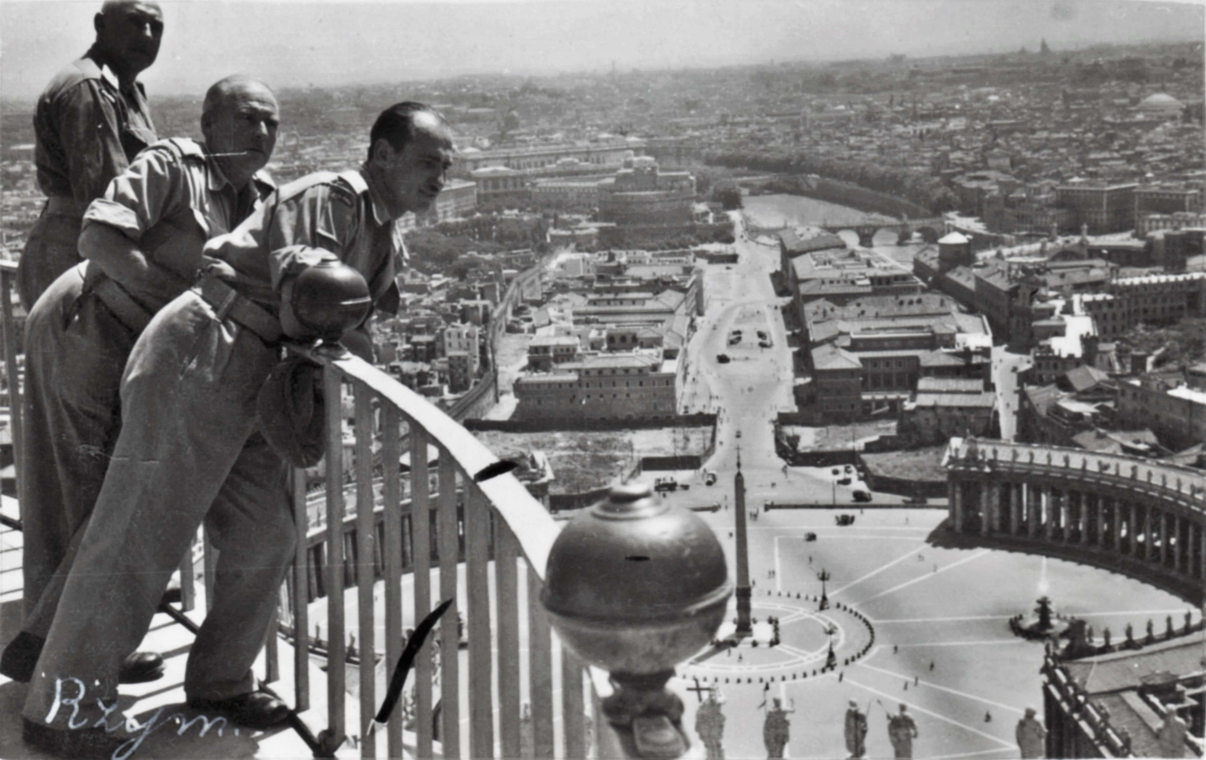 Polish II Corps soldiers in Rome. View of Saint Peter's Square and Via della Conciliazione from the dome of St. Peter's Basilica.